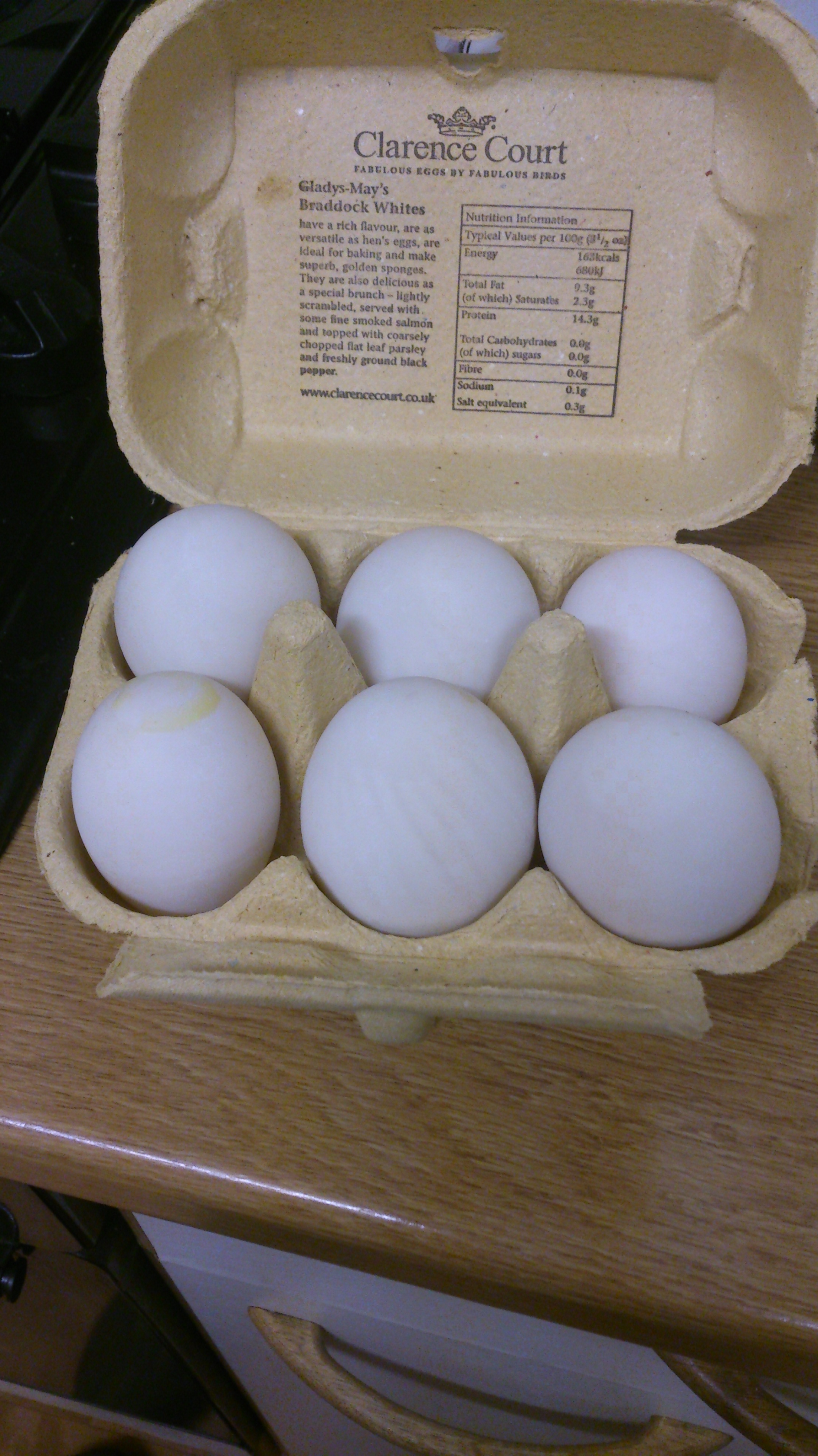 A pulp pack of eggs